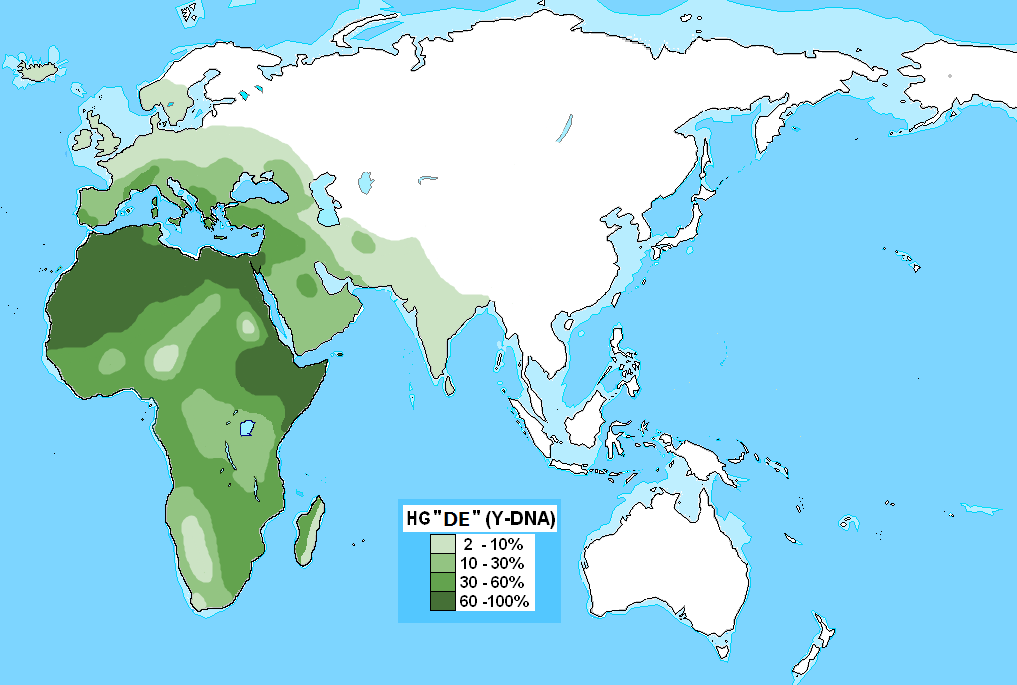 This map shows the average distribution of haplogroup E.